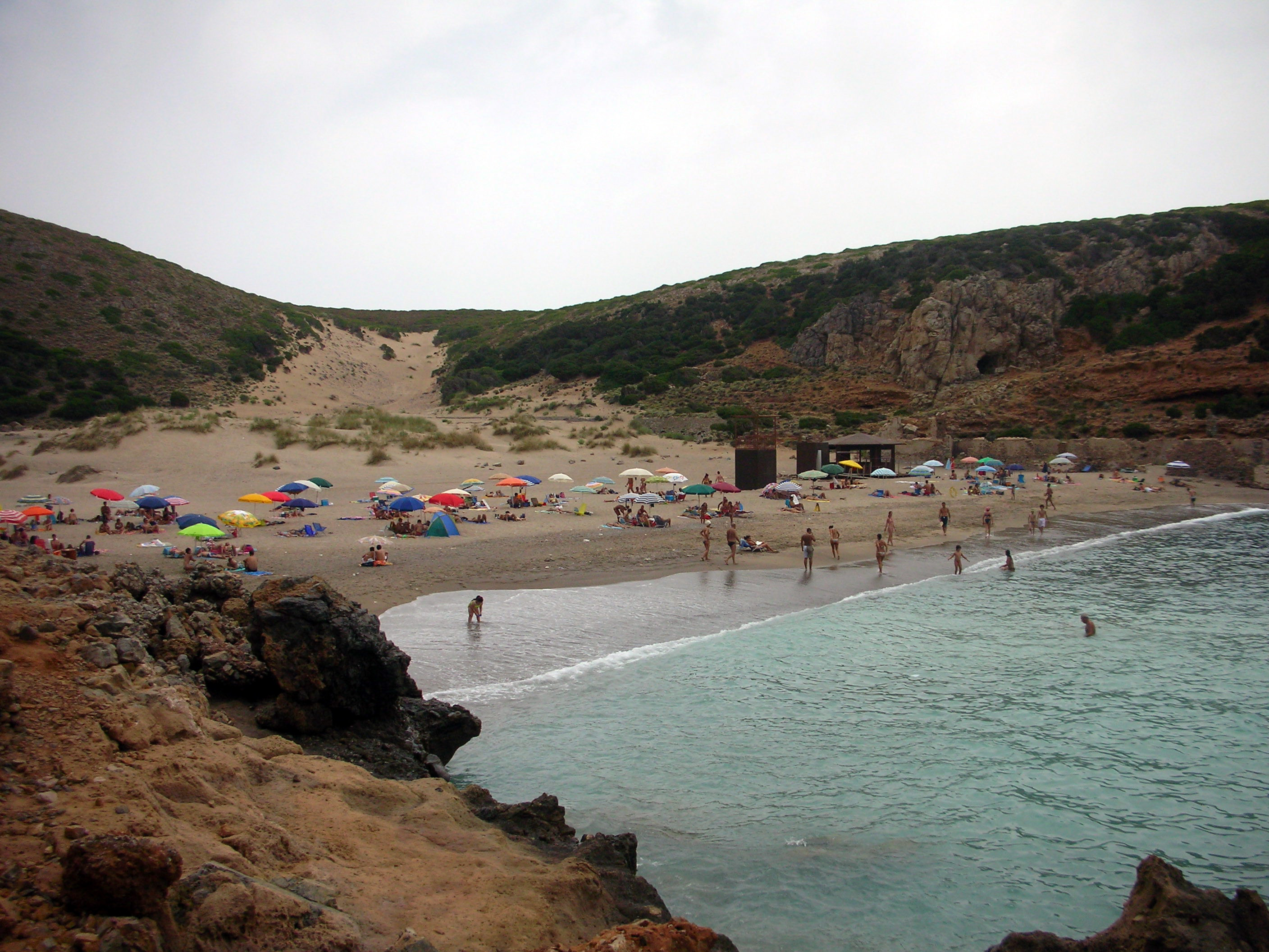 photo of Cala Domestica - Buggerru (CA), Italy